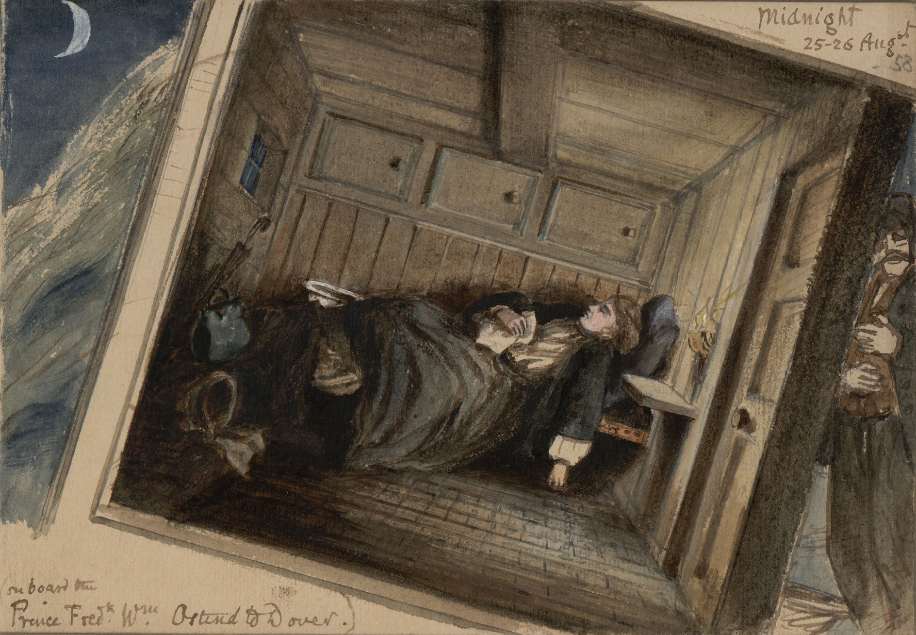 Examples of artwork on a variety of subjects and in a variety of styles by Francis Elizabeth Wynne from a sketchbook (ca. 420 drawings): mixed media, including watercolour, wash and, pen and ink.